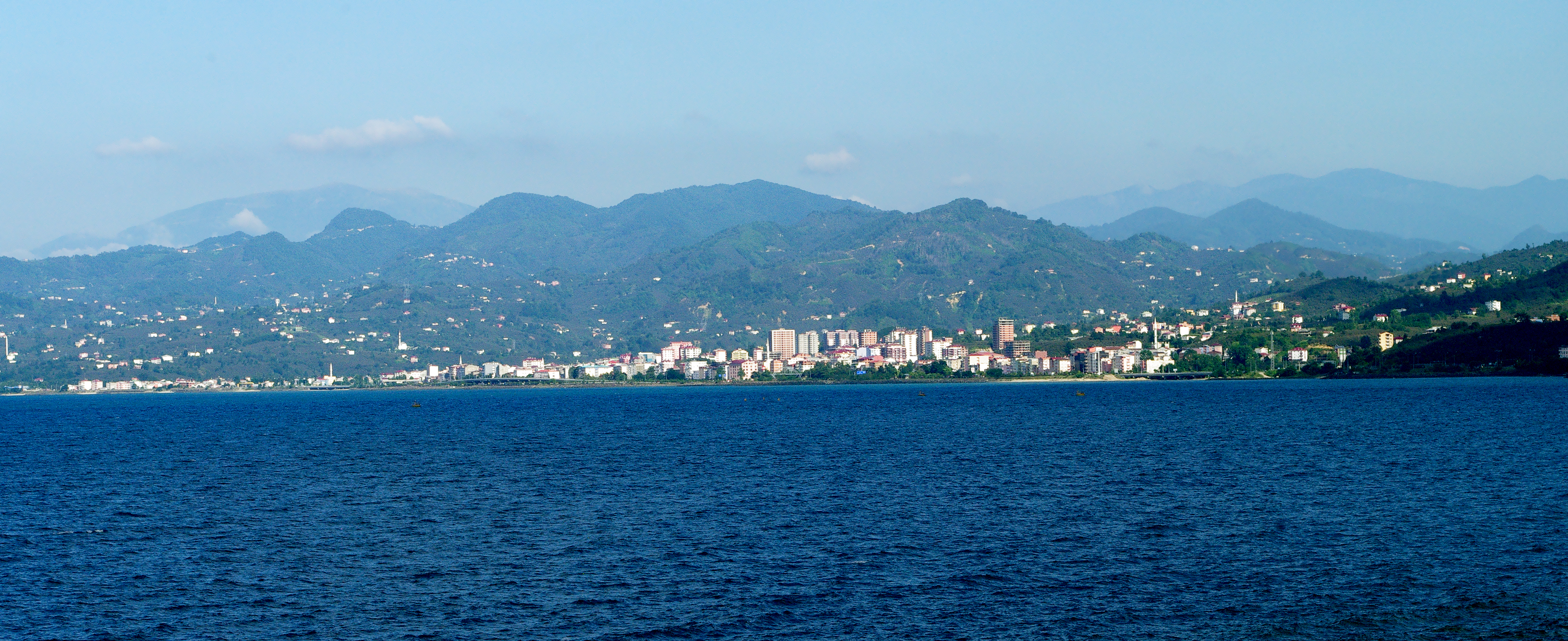 View of Espiye, center town of Espiye district of Giresun province in Eastern Black Sea region of Turkey. (Photo taken in Gülburnu Village of the town).